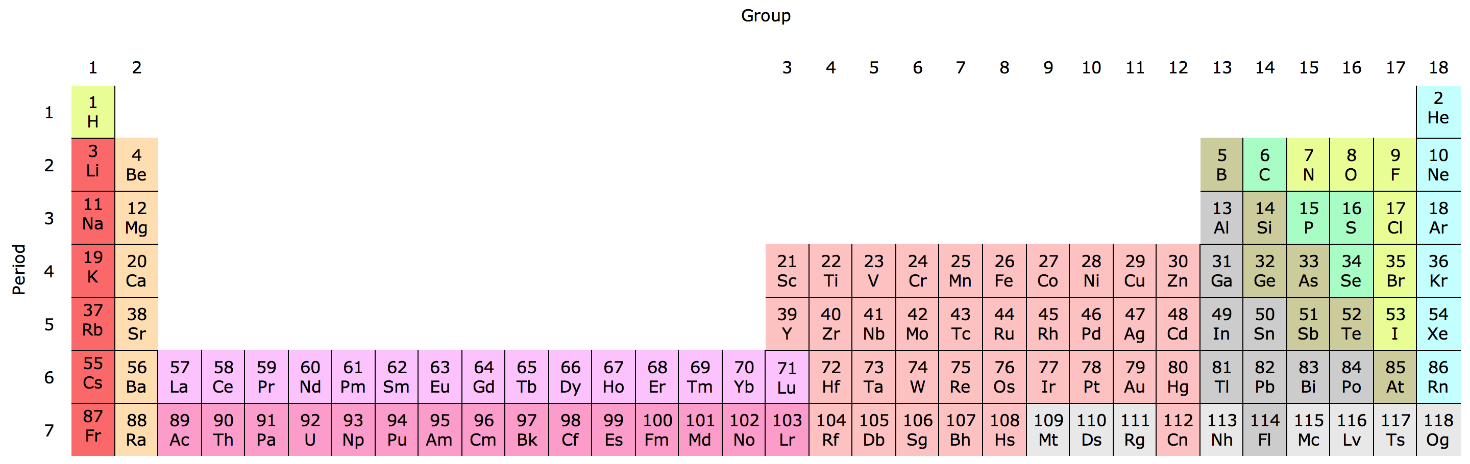 32-column periodic table with Sc, Y, Lu and Lr in group 3